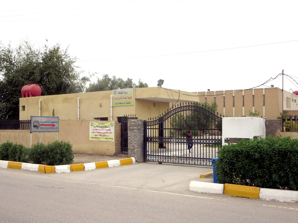 Nasiriyah Museum. The Naziriyah Museum in Nasiriyah, Iraq, has seven halls containing prehistoric, Sumerian, Babylonian, Assyrian, and Islamic artefacts.